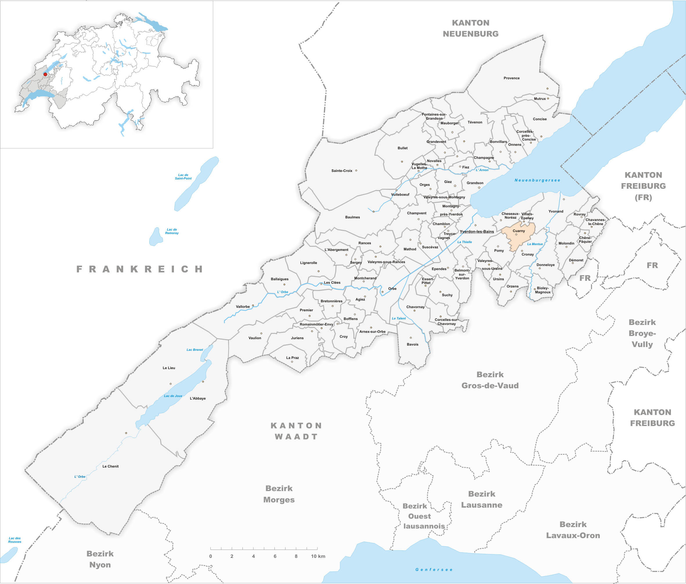 Municipality Cuarny